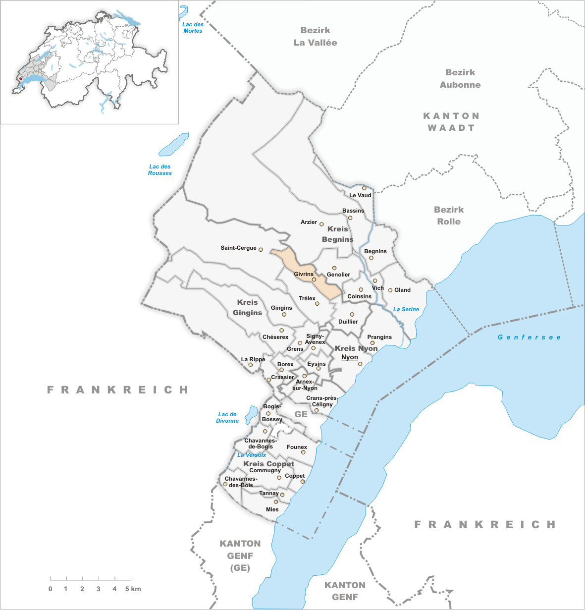 Municipality Givrins